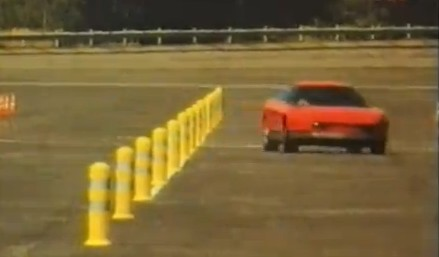 Citroen Activa Prototype from 1988, hydractive test